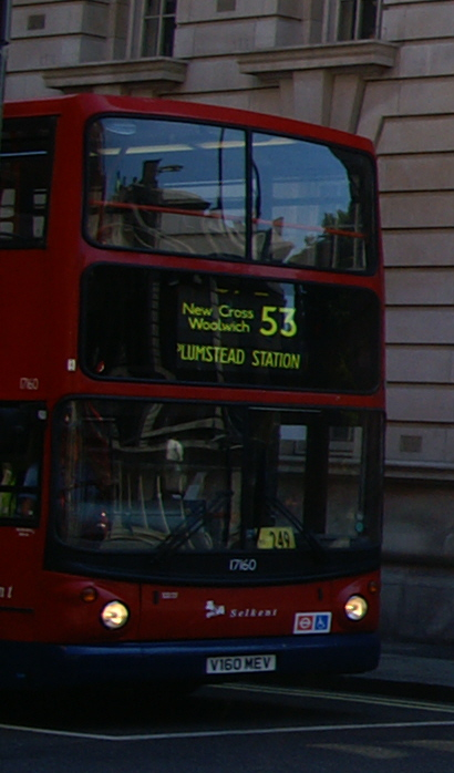 Selkent bus 17160 (reg. V160 MEV), a 1999 Dennis Trident 2 double-decker with Alexander ALX400 bodywork, operating route 53, pictured in Great Scotland Yard (street) at the junction with Whitehall, en route to Plumstead station.